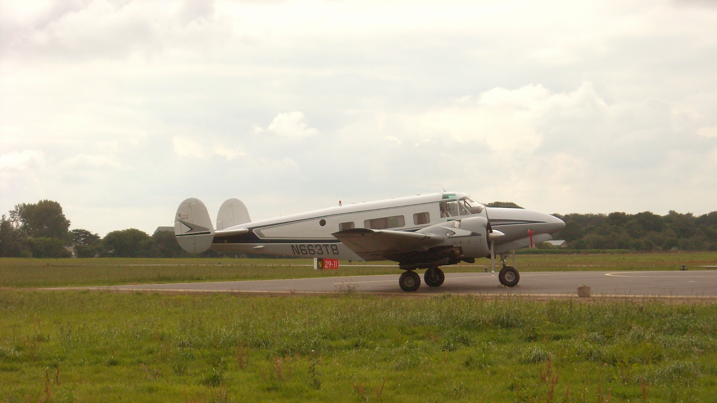 A privately owned Beech H18, fitted with the optional tricycle undercarriage, parked at Lannion airport, France.